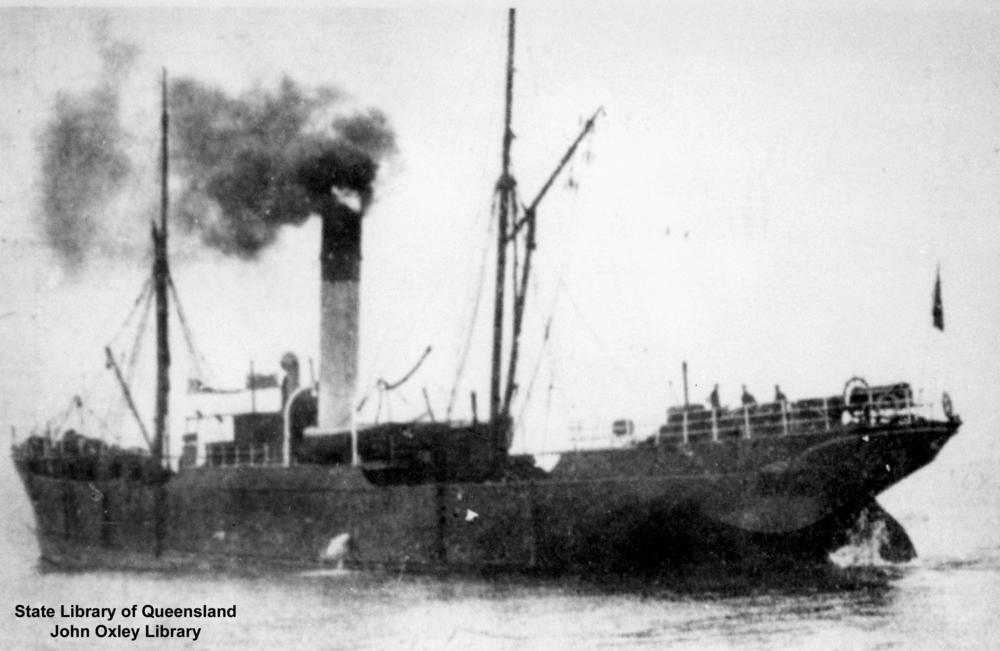 698 GRT cargo steamship Aire, built in 1886 by W Dobson & Co of Newcastle. She was owned by the Goole Steam Shipping Co and scrapped at Hook near Goole in 1930. Goole Steam Shipping was owned by the Lancashire and Yorkshire Railway from 1905 and it successors the London and North Eastern Railway from 1922 and the London, Midland and Scottish Railway from 1923.